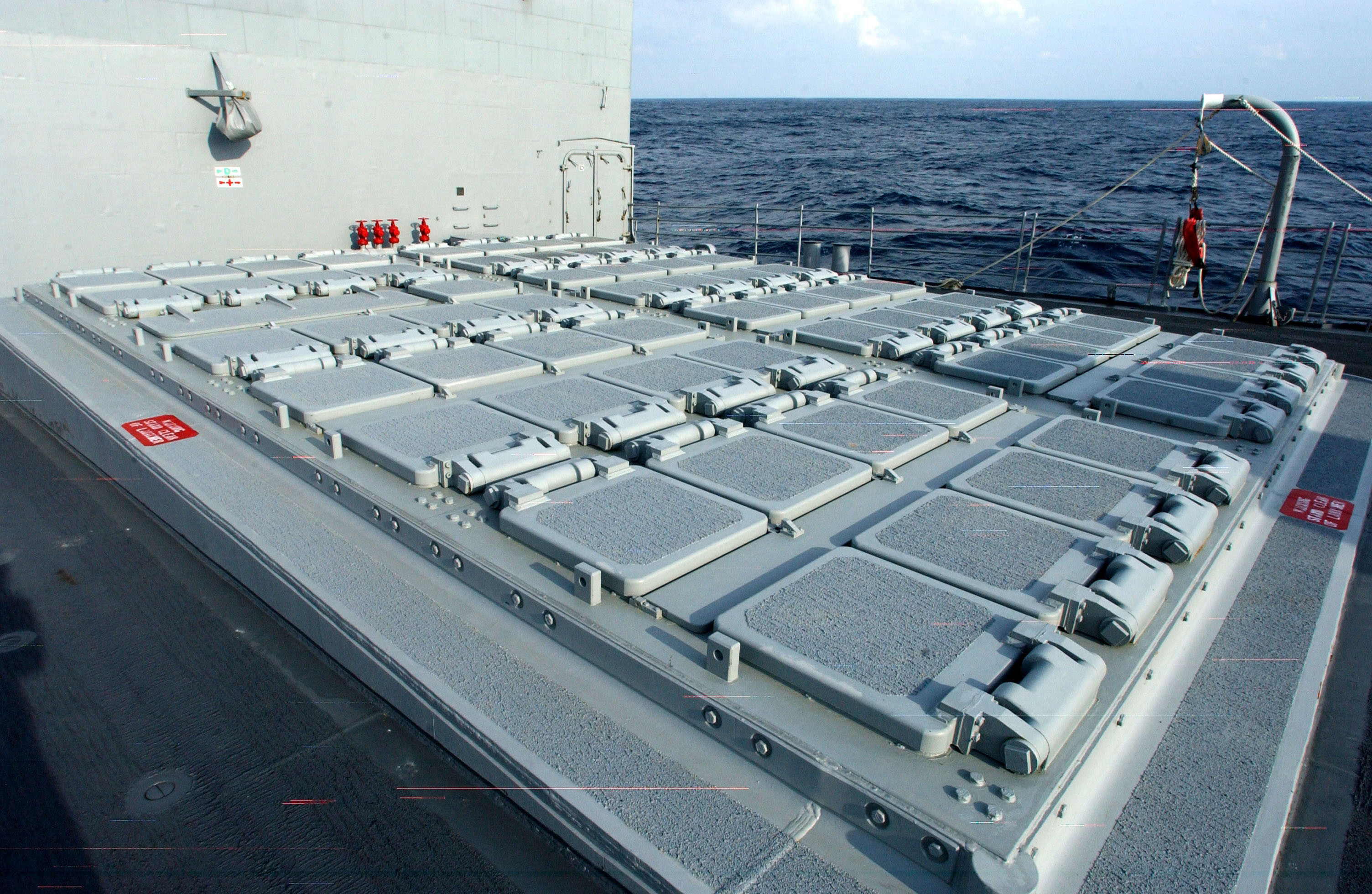 At sea aboard USS San Jacinto (CG 56) Mar. 3, 2003 -- A topside view of the forward MK-41 Vertical Launching System (VLS) aboard the guided missile cruiser. The MK 41 is a fixed, vertical, multi-missile storage and firing system that allows Navy vessels significantly increased firepower. San Jacinto is on deployment in support of Operation Enduring Freedom. U.S. Navy photo by Photographer's Mate 1st Class Michael W. Pendergrass. (RELEASED)